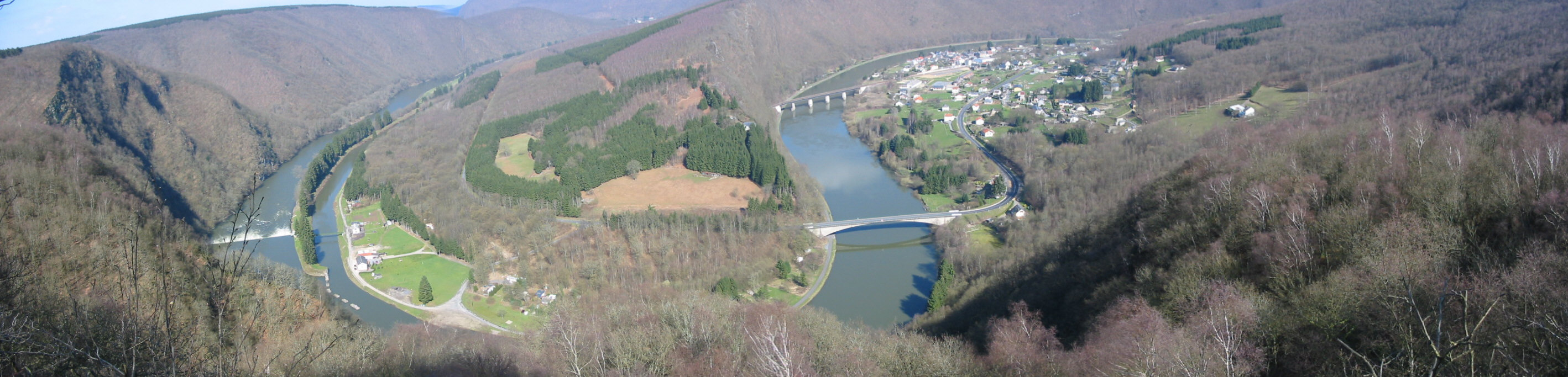 Meuse river and the town of Laifour – French Ardennes.